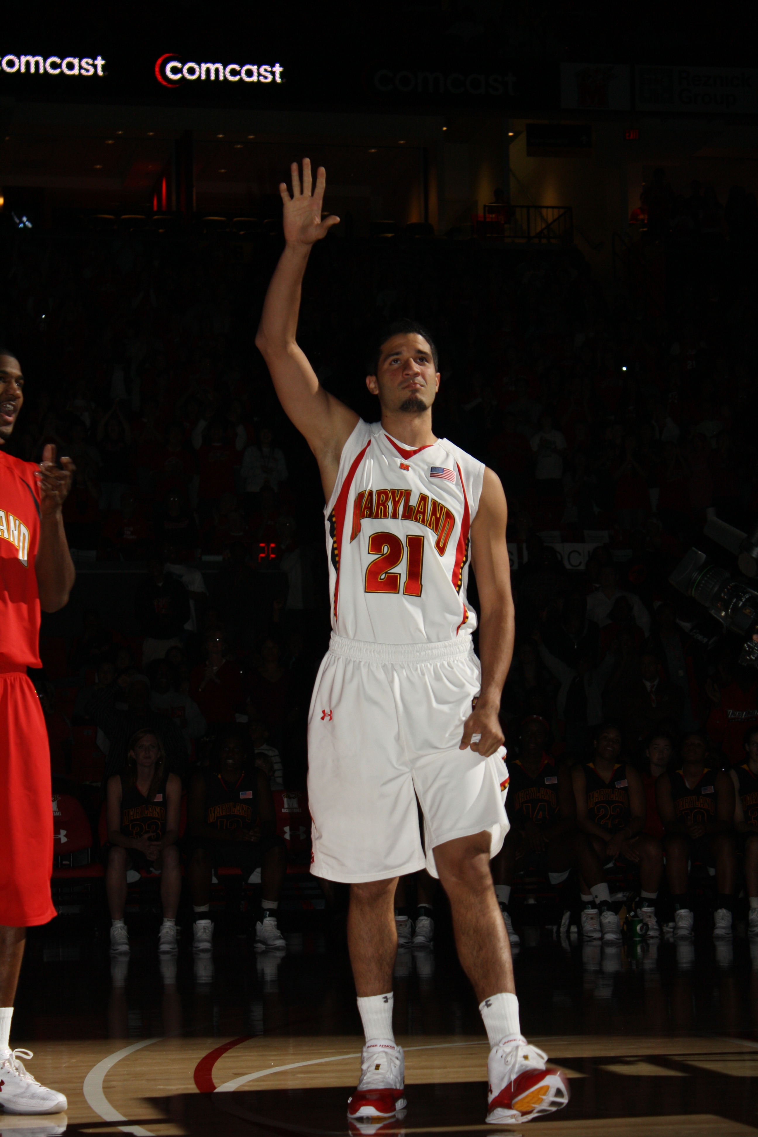 Maryland Madness 2009 196